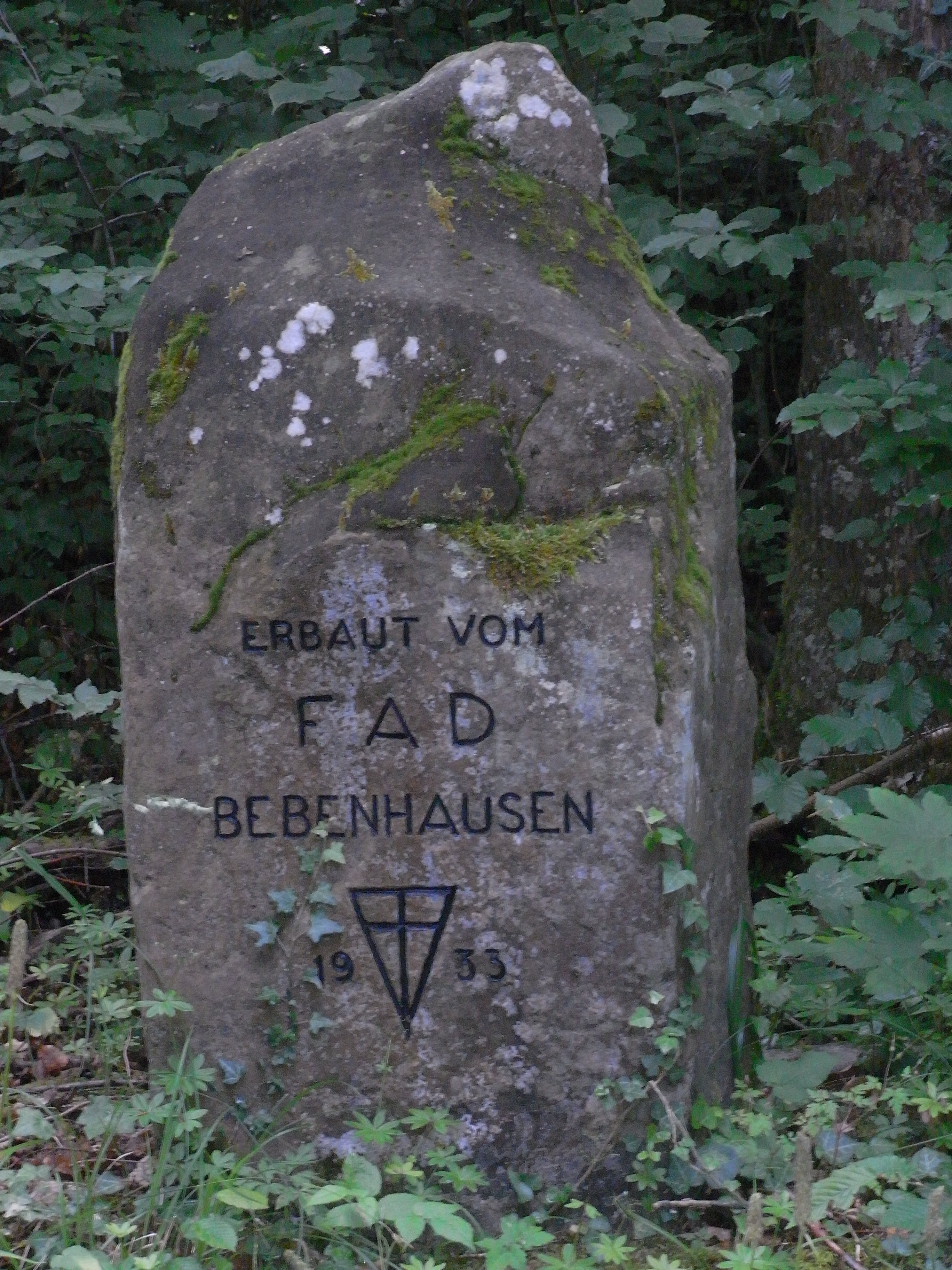 Memorial stone of "Freiwilliger Arbeitsdienst" (FAD)